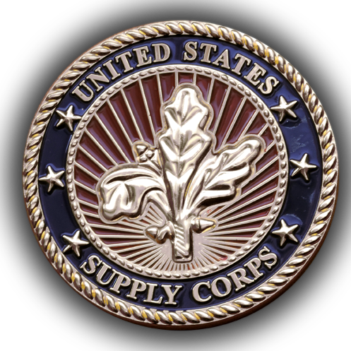 Challenge coin manufactured and produced by for the Navy Supply Corps